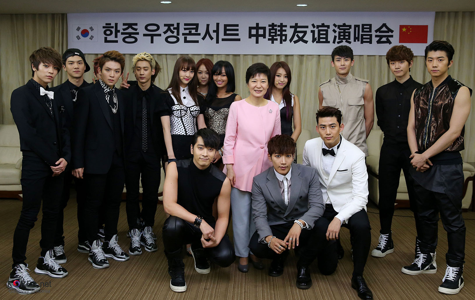 President Park Geun-hye’s state visit to China